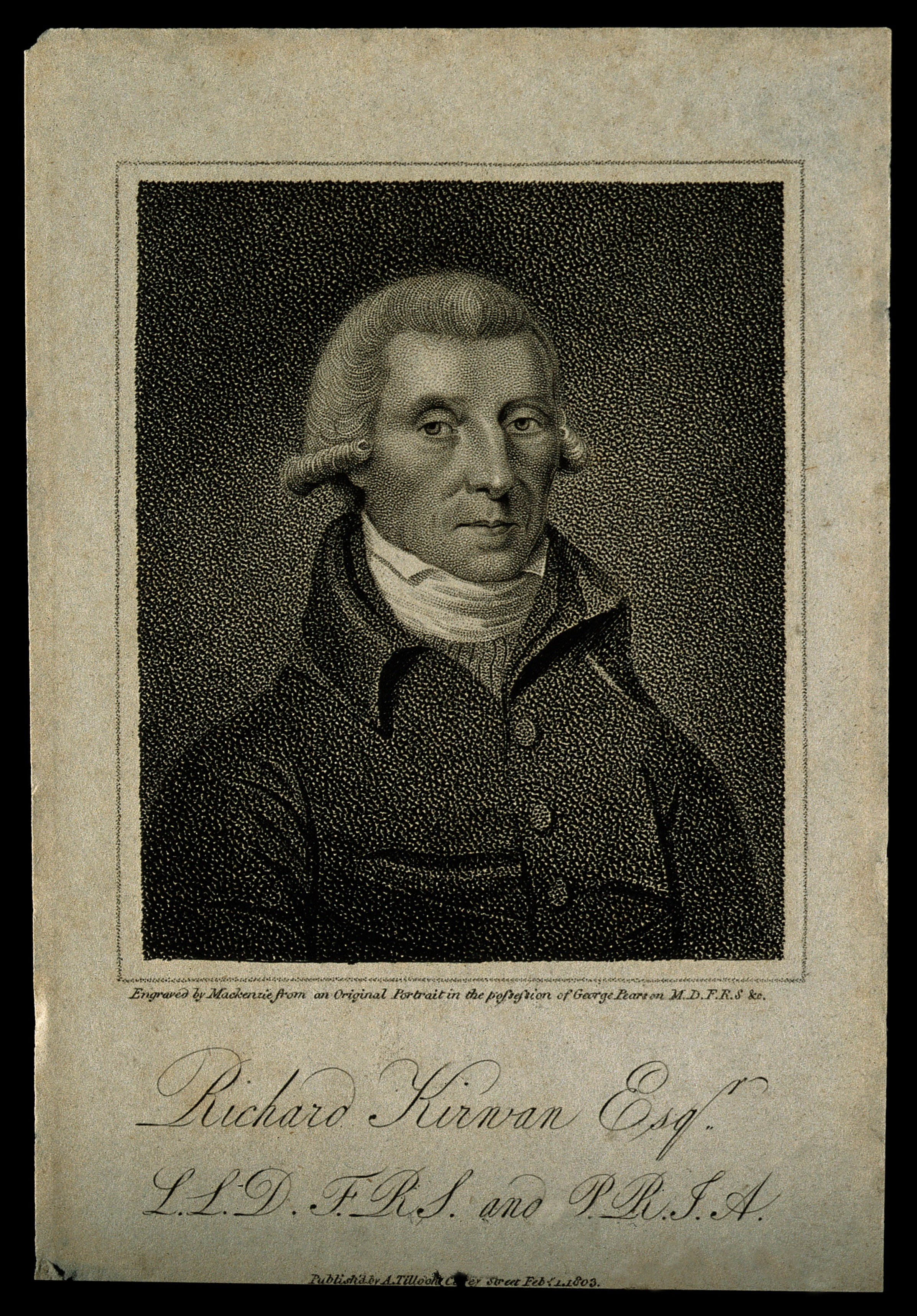 Richard Kirwan. Stipple engraving by Mackenzie, 1803. Iconographic Collections Keywords: portrait prints; stipple prints; Richard Kirwan